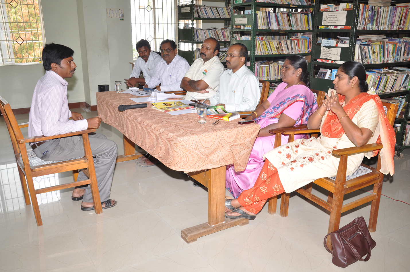 மாதிரி நேர்முகத் தேர்வு